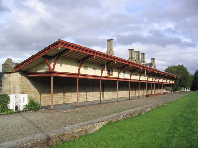 The former Melrose Railway Station This is one of the few remaining railway buildings on the Edinburgh to Carlisle Waverley Railway Line, a route that was closed in 1969. This elegant canopy with cast iron lotus-capitalled columns, covered the up platform. The remaining station buildings have been refurbished and now contain a restaurant and a small museum. The down platform and associated buildings were demolished to make way for the A6091 Melrose bypass road. (Source: Borders and Berwick, An Architectural Guide by Charles Alexander Strang and Borders Railways Rambles by Alasdair Wham)